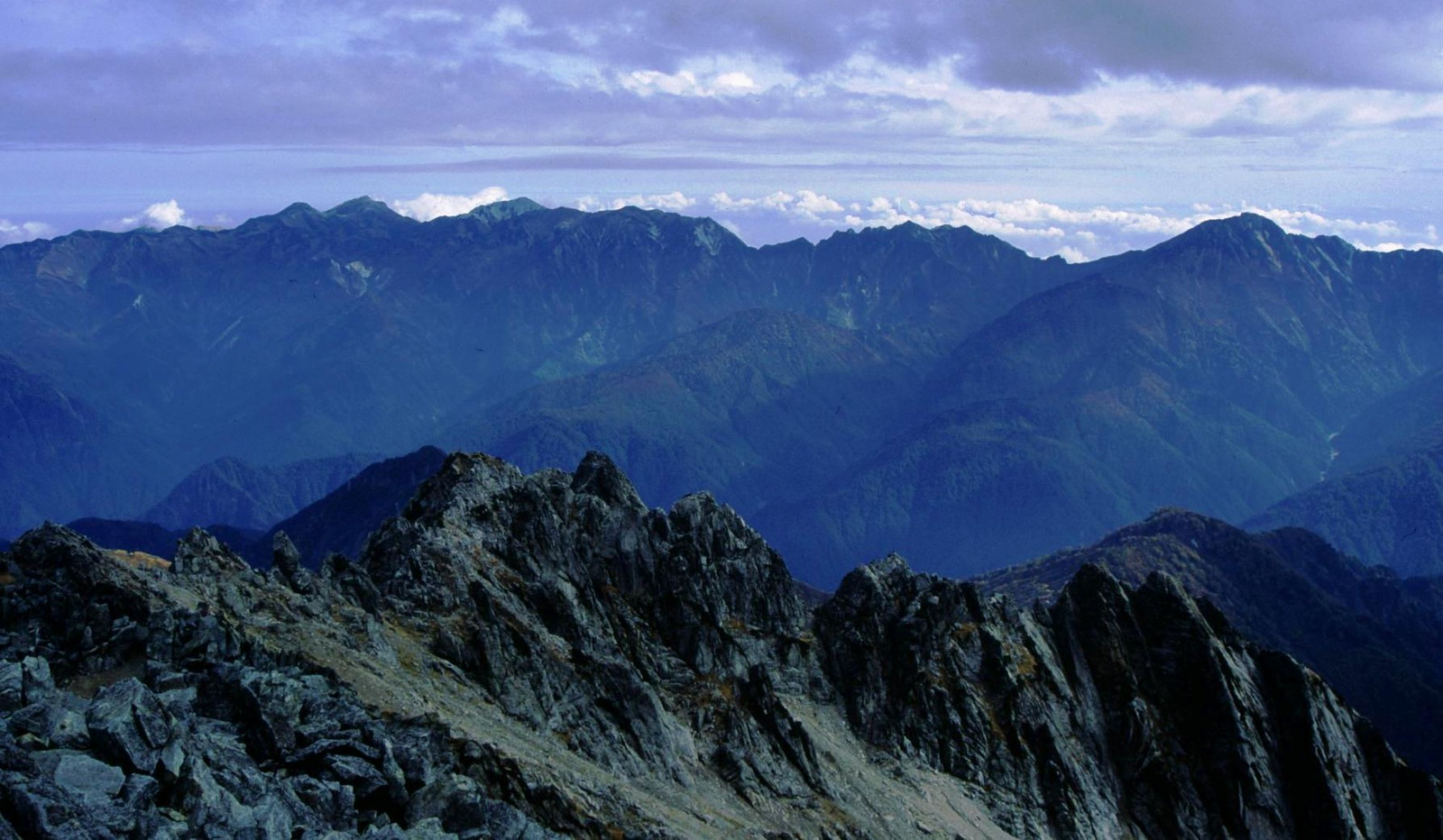 Mount_Shirouma_and_Mount_Goryu_from_Mount_tsurugi